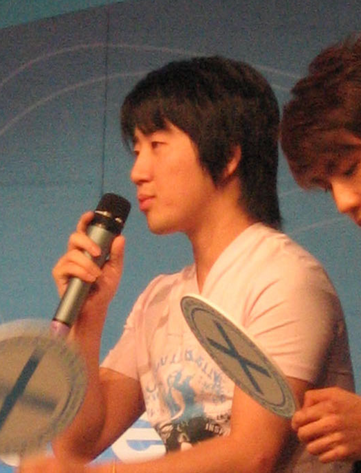 Lim Yo Hwan to discuss Hong Jin Ho.